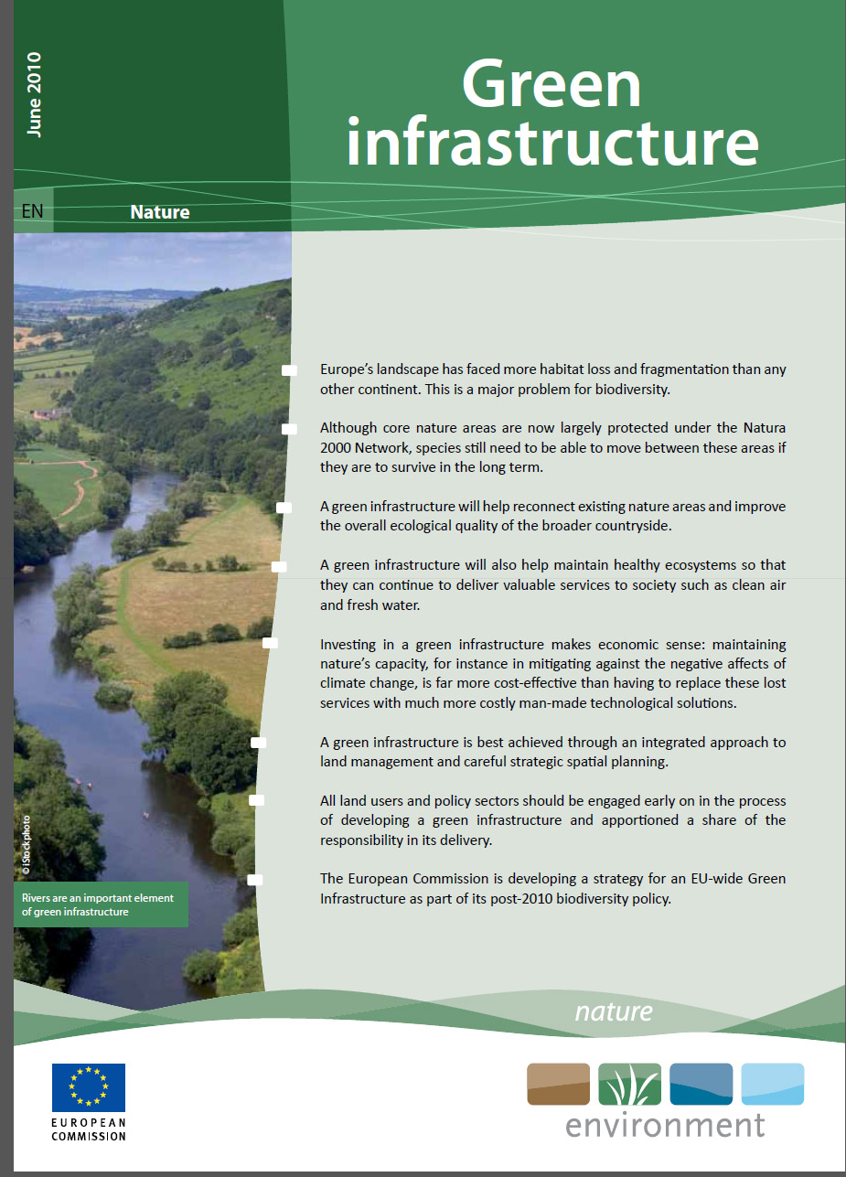 Illustration and first page used in 2010 by the European Commission in its plate about the development of an EU strategy for a Green infrastructure figures prominently in the EU’s new post 2010 biodiversity policy. (This is because a Green infrastructure is viewed as being one of the main tools to tackle threats on biodiversity resulting from habitat fragmentation, land use change and loss of habitats) (Reproduction is authorised provided the source is acknowledged)